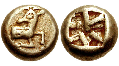 Ephesos, 620-600 BC. EL Hekte (9mm, 2.30 gm). Forepart of stag right / Square incuse punch with raised intersecting lines.